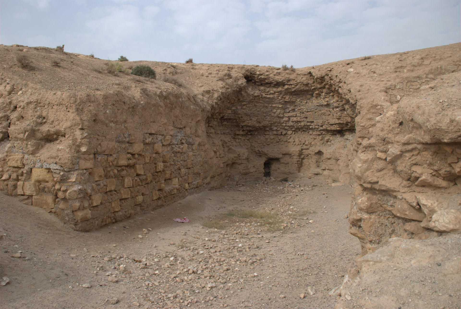 Heraqla, near ar-Raqqah, Syria. Iwan on east side